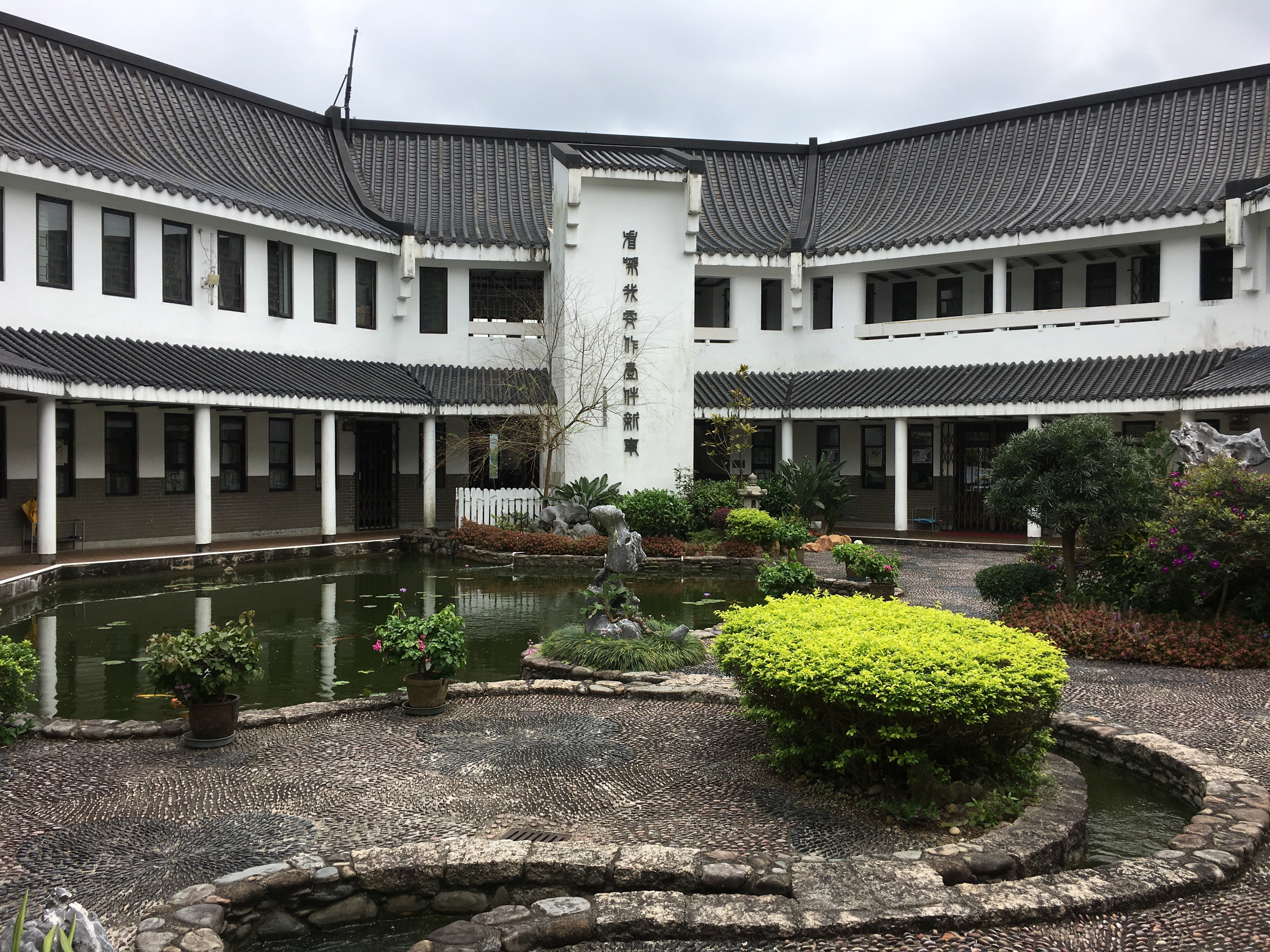 The garden inside the Lutheran Theological Seminary, Sha Tin, Hong Kong. Traditional Chinese calligraphy inscribed on the wall reads "Behold, I will do a new thing" (Isa 43:19).